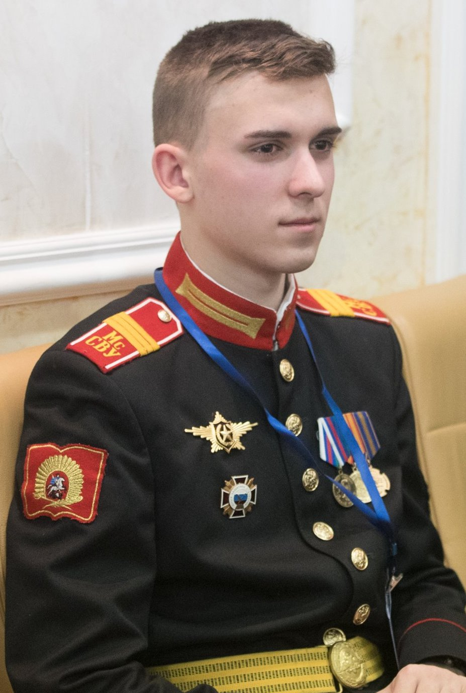 Moscow Suvorov Military School, Nikita Filimonov, 2018